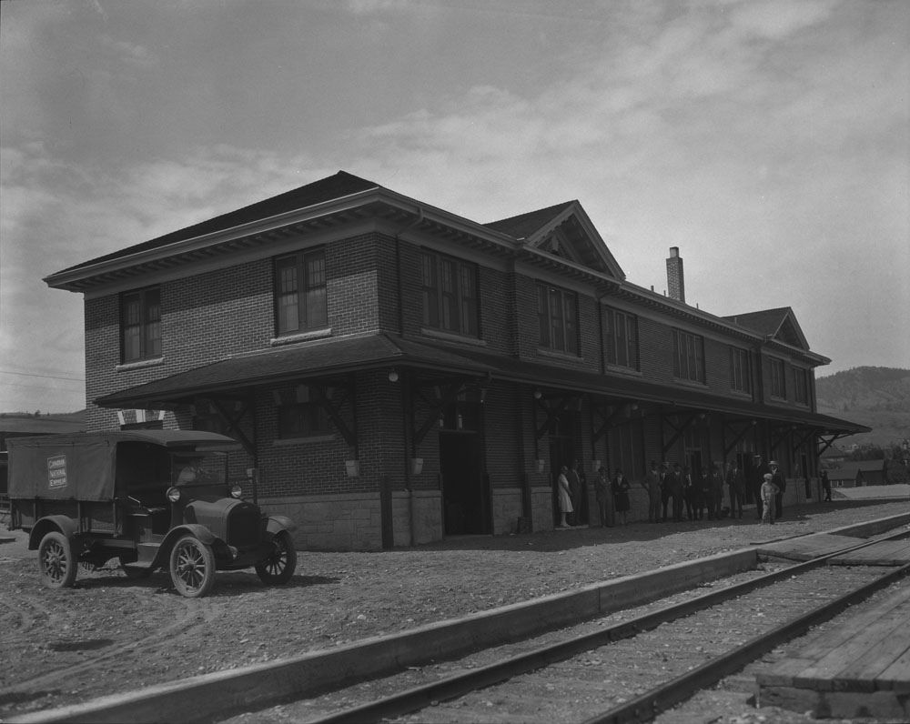 Title / Titre : Canadian National Railways (CNR) station / Une gare de la société Canadian National Railways Creator(s) / Créateur(s) : Unknown / Inconnu Date(s) : 1927 Reference No. / Numéro de référence : MIKAN 3350389 Location / Lieu : Kamloops, British Columbia, Canada / Kamloops, Colombie-Britannique, Canada Credit / Mention de source : Canadian National Railways. Library and Archives Canada, e010861031 / Chemin de fer national canadien. Bibliothèque et Archives Canada, e010861031